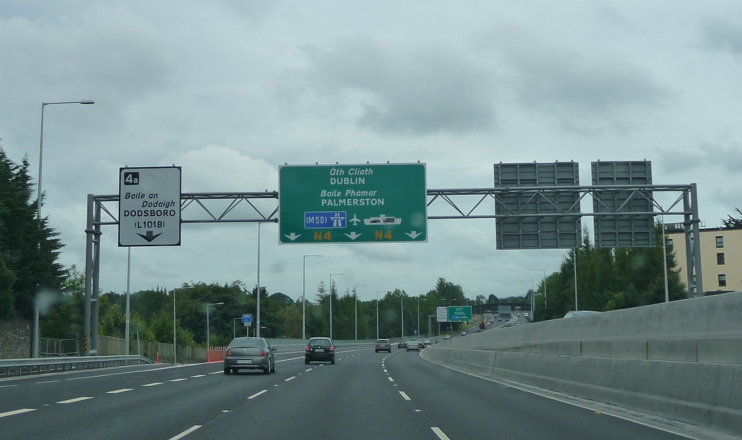 Eastbound on the newly upgraded Lucan Bypass (N4).